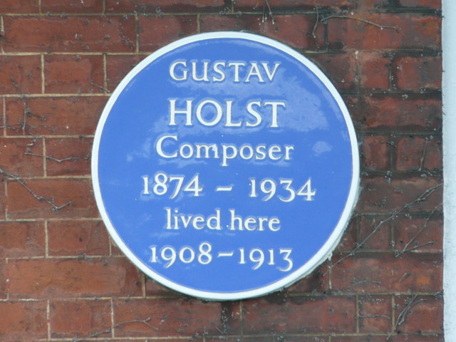 Blue Plaque - The Terrace, Barnes